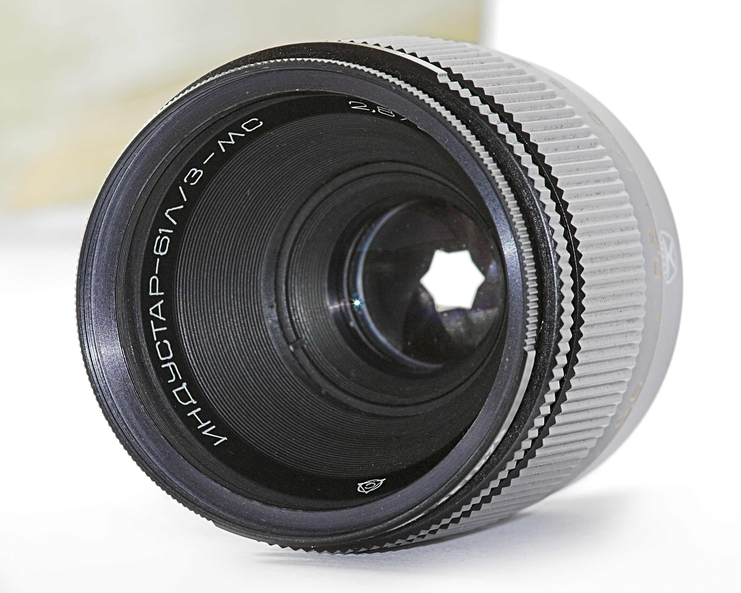 Industar-61L/Z-MS